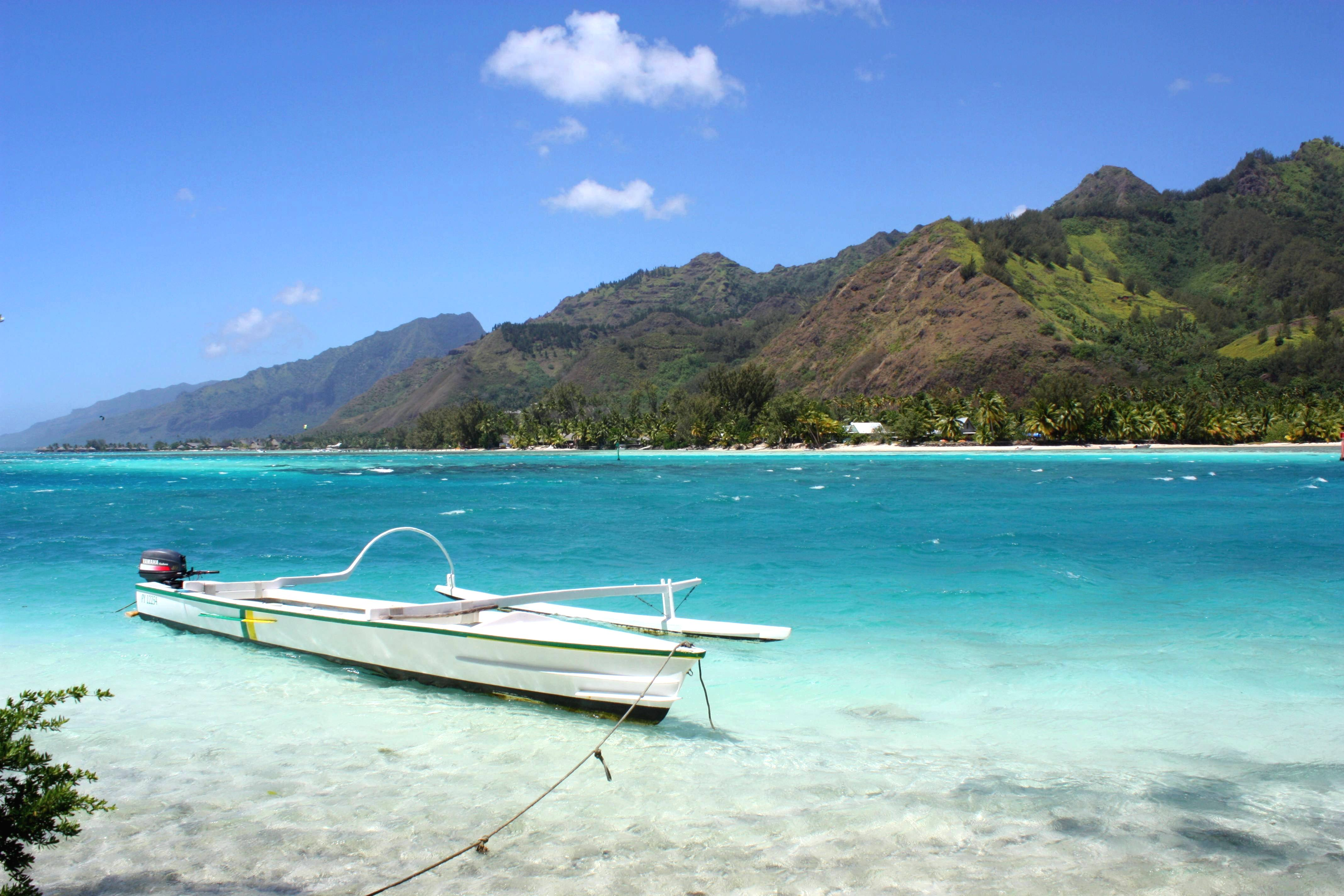 Motu is, local name about Sand Island with vegetation, Situated in the external edge of the coral reef surrounding the Main central Island . The lagoon is situated between The coral Barrier/Motu and the main mountain's island